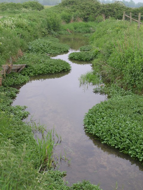 Watercourse in the Frome valley. Winding between beds of watercress, this stream is part of the irrigation system that involved structures like 334986.